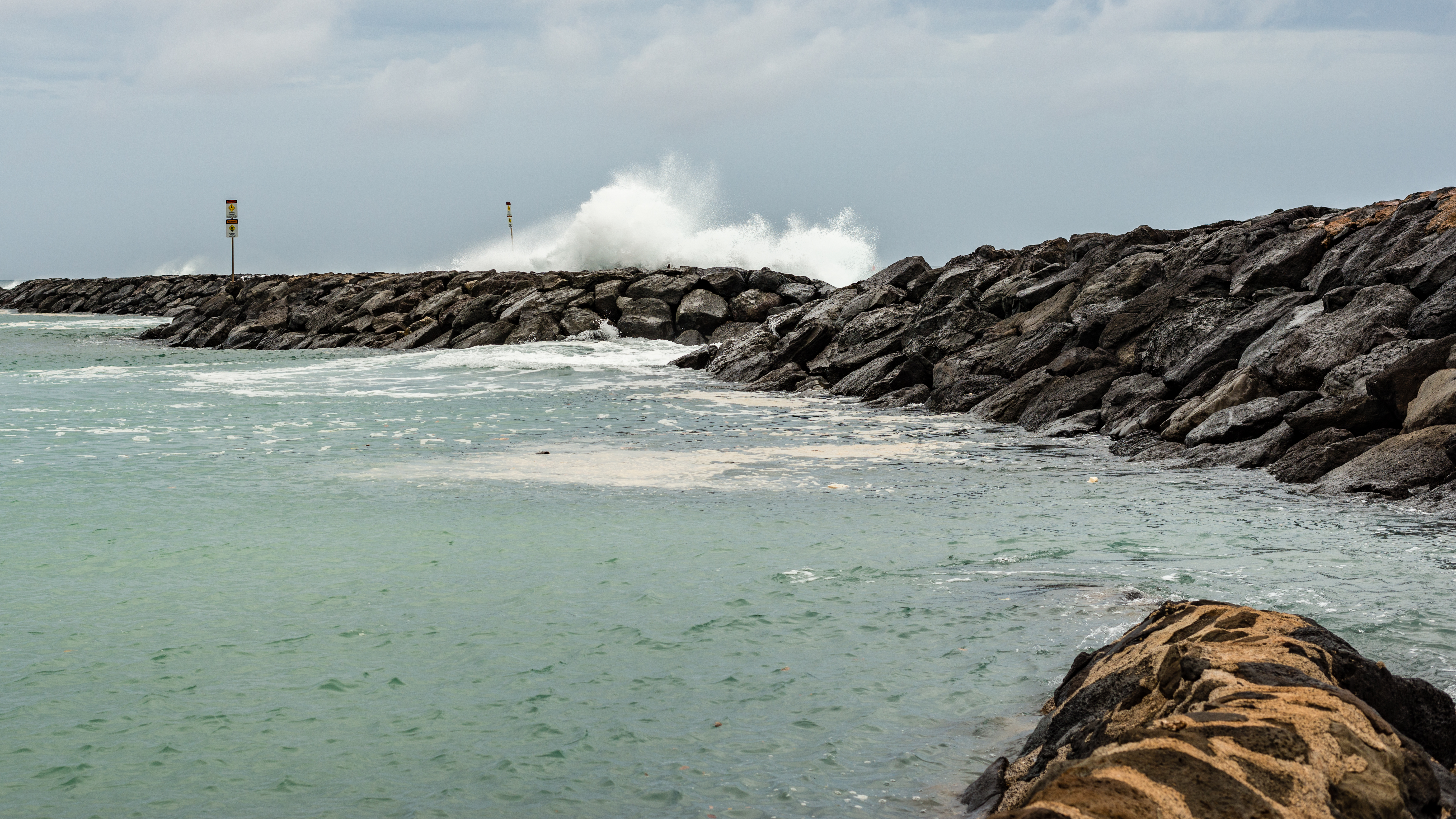 Capturing the (thankfully) little bit of drama Hurricane Lane sent our way.